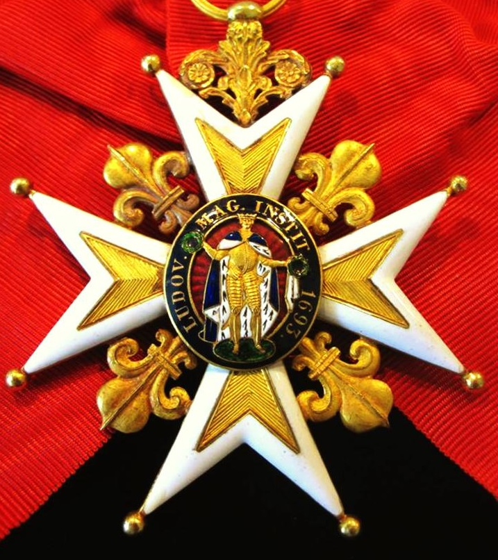 Grand Cross sash and sash badge of the Order of Saint-Louis, Kingdom of France. Private collection.